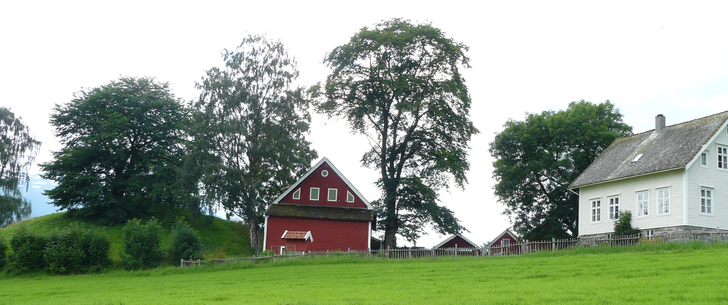 Karnilsfarm with tumulus in Gloppen, Norway - eastview.jpg